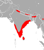 Rufous Horseshoe Bat (Rhinolophus rouxii) range